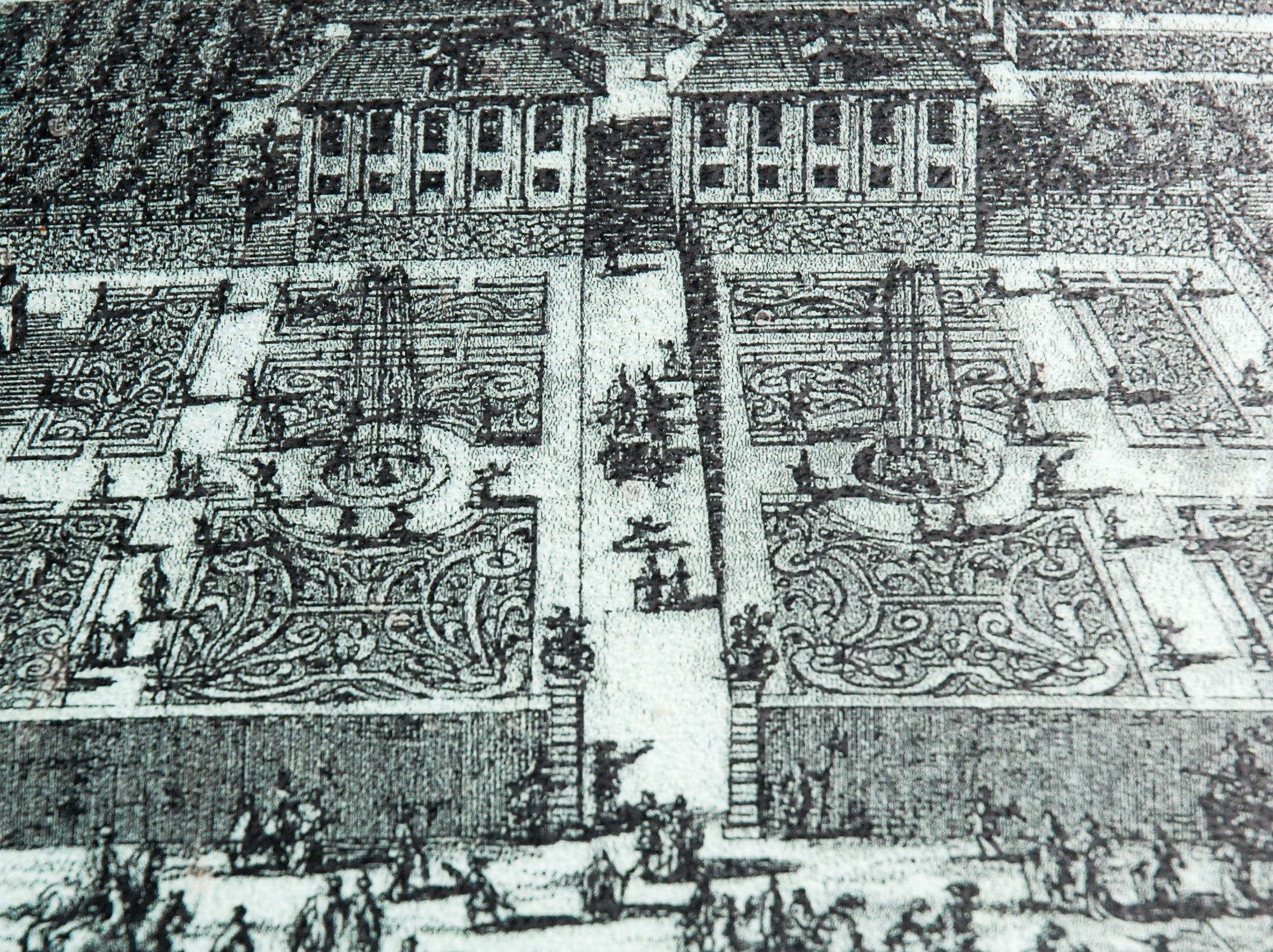 Photo of a Swedish etching of Piperska muren, Stockholm, Sweden.